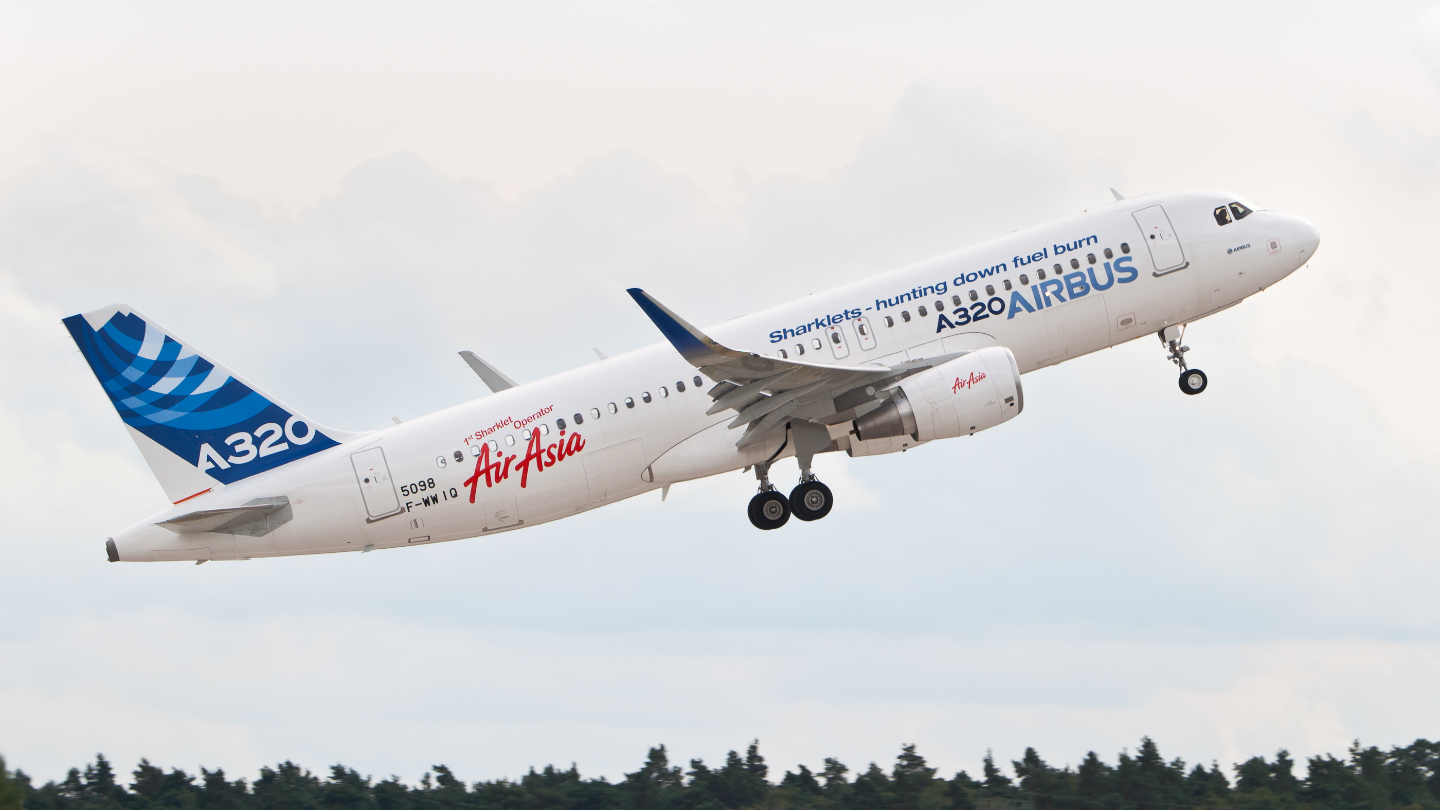 A320 Enhanced (A320E) prototype (F-WWIQ) with sharklets at ILA Berlin Air Show 2012.